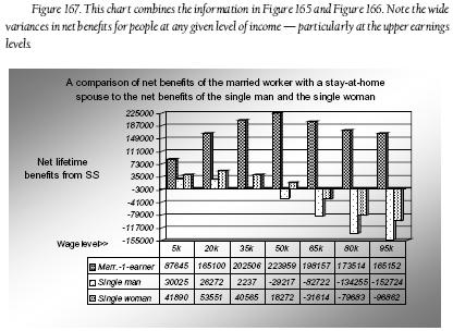 In the United States, Social Security benefits compared for single vs. married workers. According to author Joseph Fried, this graphic uses information from: C. Eugene Steuerle and Adam Carasso, "The USA Today Lifetime Social Security and Medicare Benefits Calculator," (Urban Institute, October 1, 2004), from: Note: The calculator does not include the value or cost of the Social Security disability program.